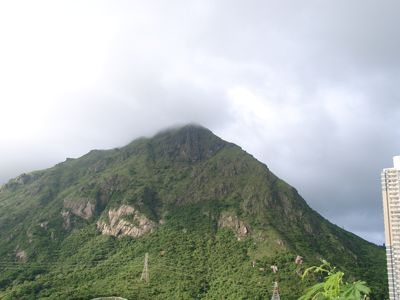 Kowloon Peak is the highest hill in Kowloon, Hong Kong.